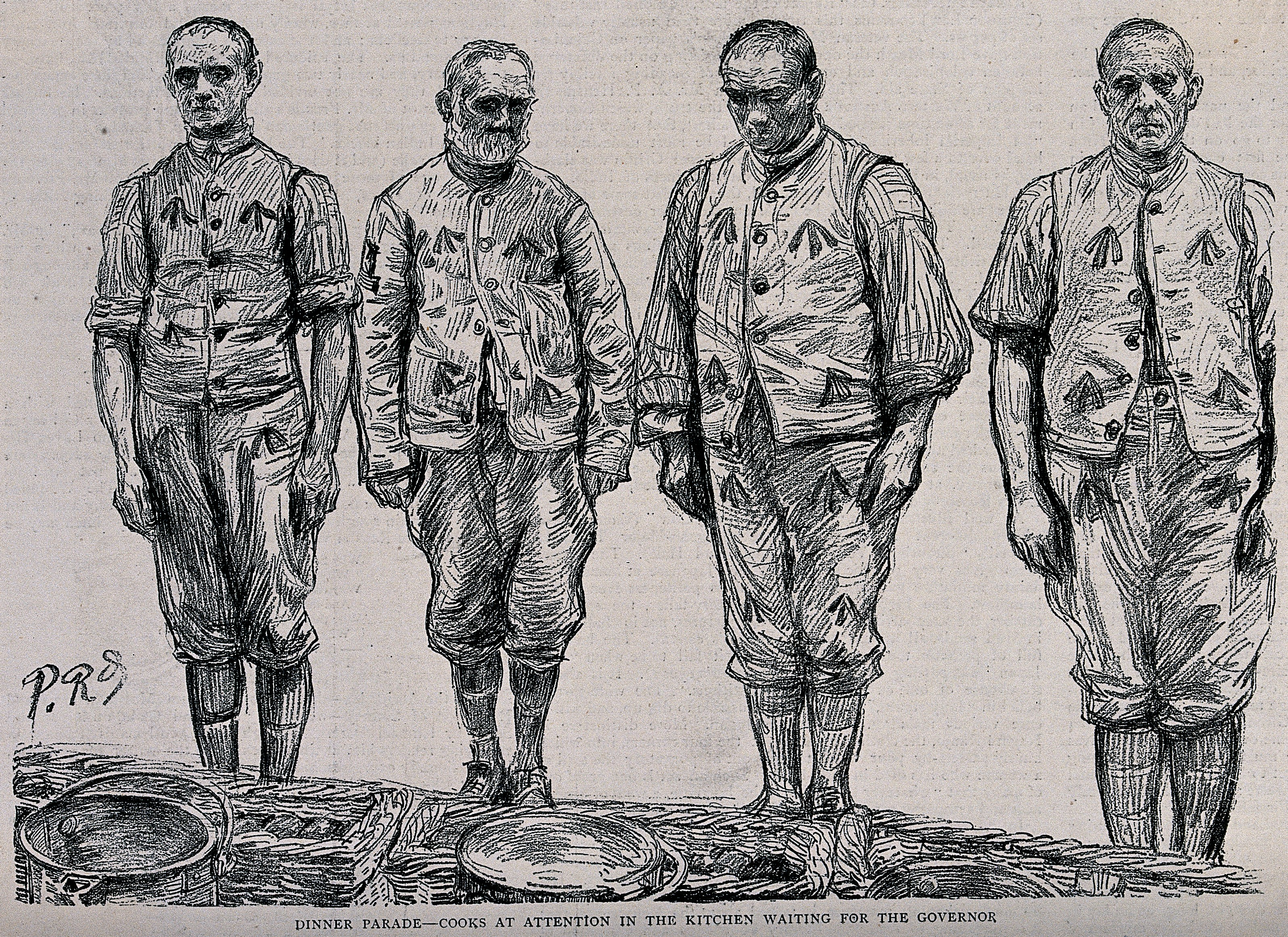 Four men in prison uniform are standing in a line in front of bowls and baskets. Lithograph. Iconographic Collections